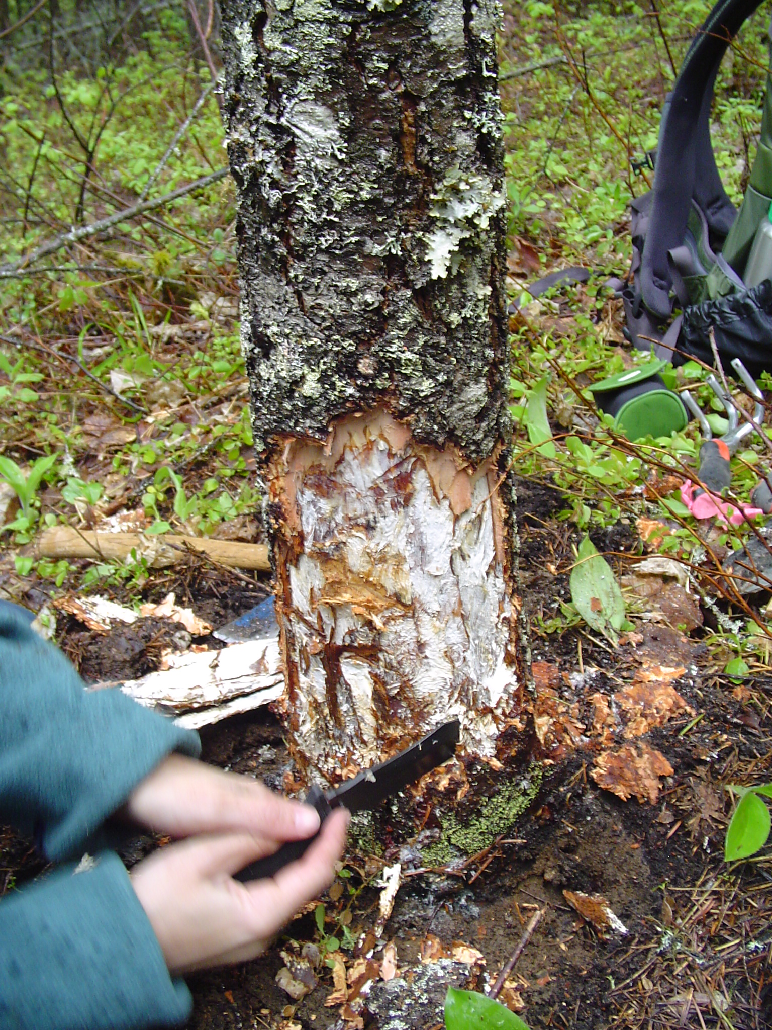 Armillaria ostoyae mycelia on Douglas-fir